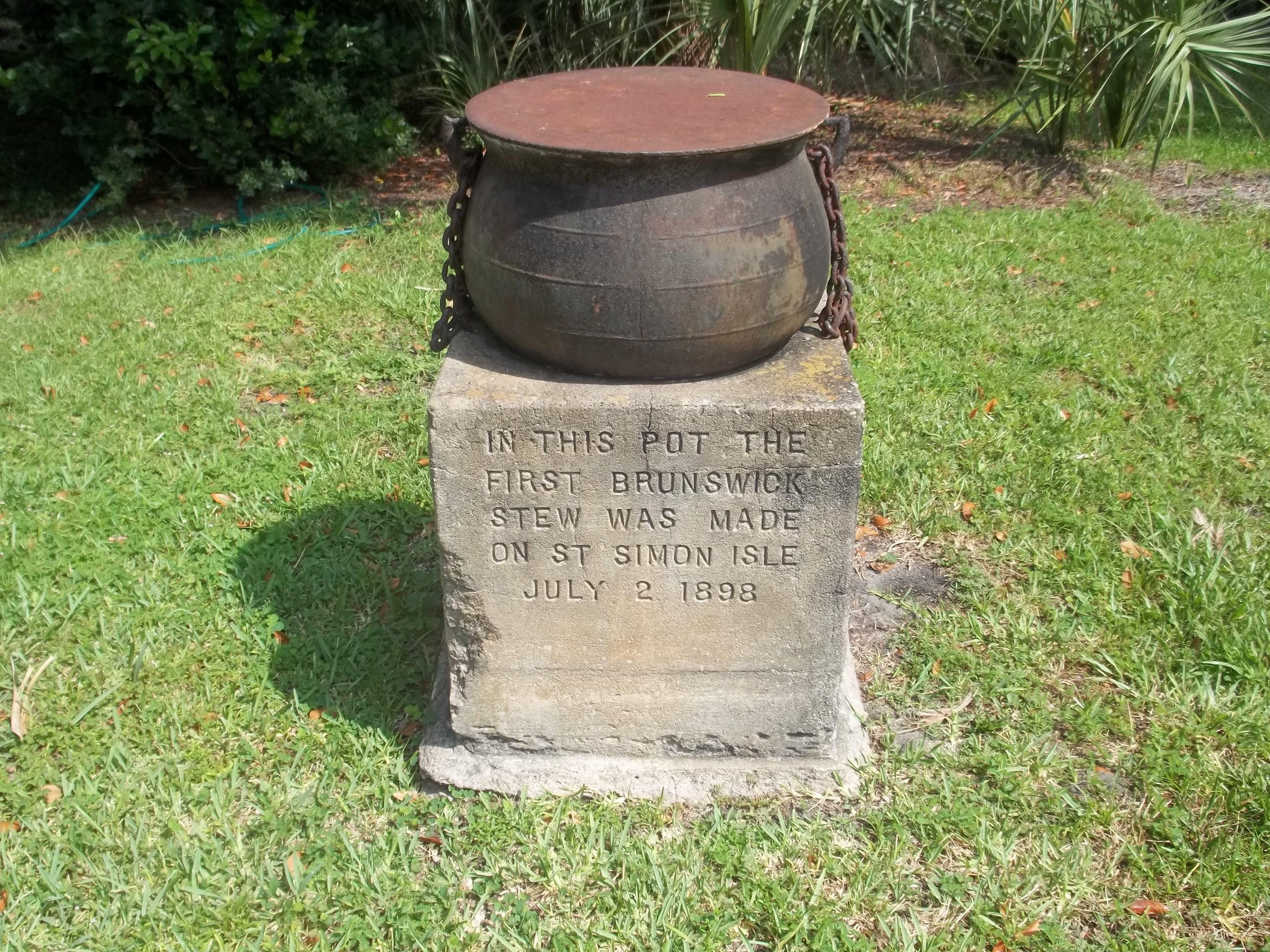 Brunswick, Georgia: Stewpot in which (supposedly) the first Brunswick stew was made. Brunswick and Golden Isles Visitors Bureau, at the Brunswick end of the F J Torras Causeway.